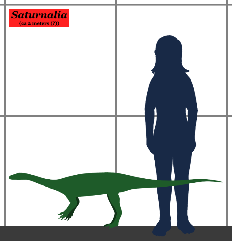 Estimated size of Saturnalia tupiniquim (Dinosauria, Saurichia, Sauropodomorpha) and a human. Size of Saturnalia is based on the holotype.[1] References ↑ Benton M.J., Abdala F. et.al, "A sauropodomorph dinosaur from the Upper Triassic (Carnian) of Southern Brazil", Comptes Rendus de l'Académie des Sciences, 329: 511-;517